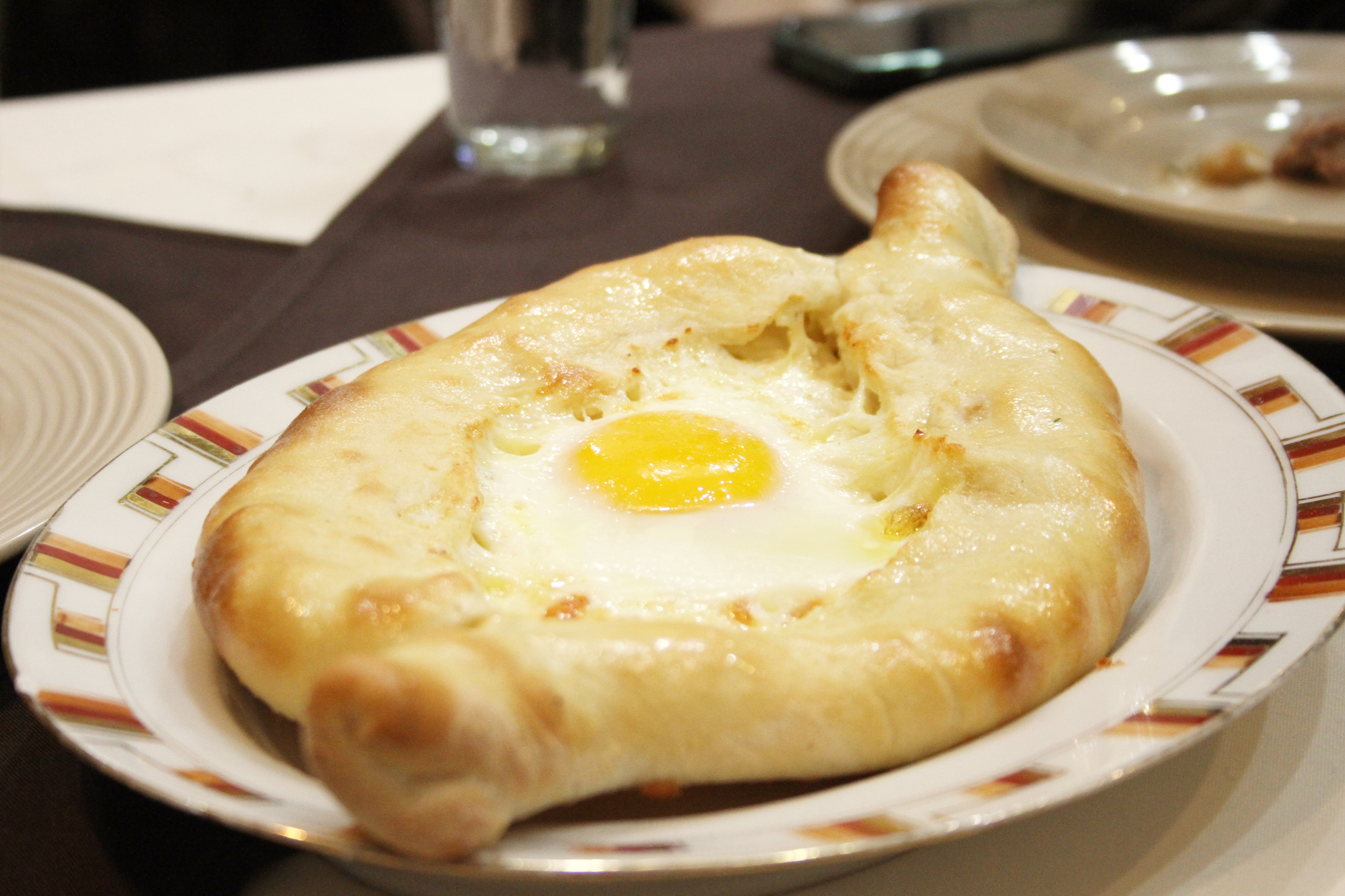 Aragvi 832 Sheppard Ave W, Toronto